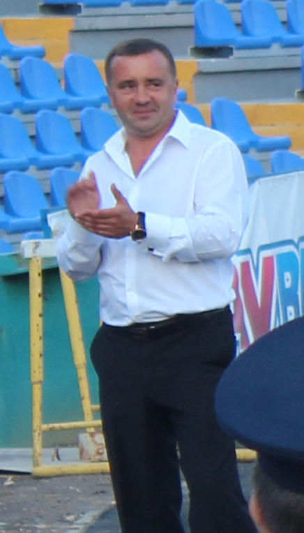 Ruslan Zabransky